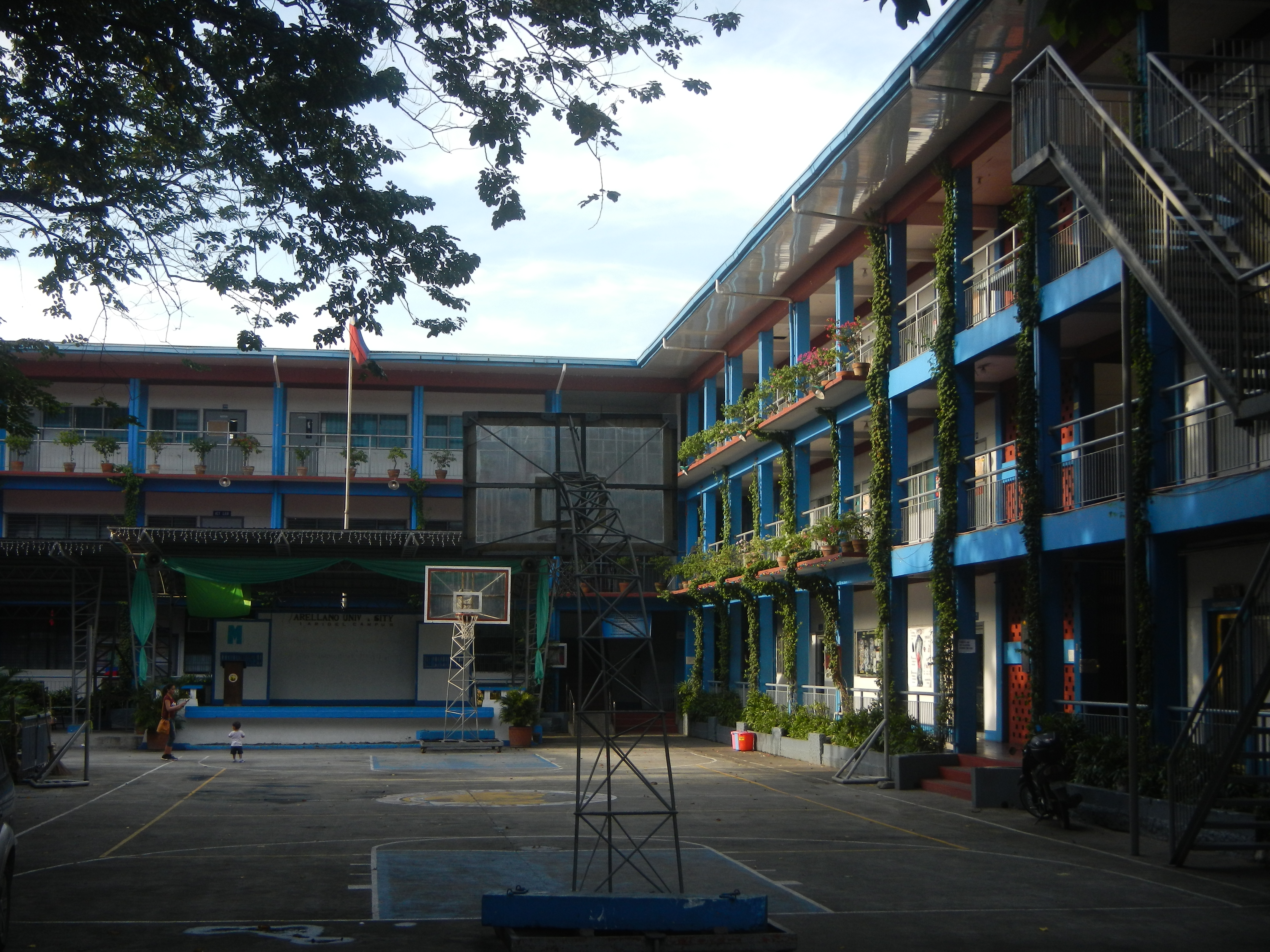 Arellano University – Plaridel Campus of Arellano University Mandaluyong City from Boni Avenue (Mandaluyong) 14°34'36"N 121°2'5"E Boni Avenue List of barangays of Metro Manila, Barangay Pag-Asa 14°35'24"N 121°1'30"E beside Harapin ang Bukas 14°35'31"N 121°1'34"E Mandaluyong City (Note: Judge Florentino Floro, the owner, to repeat, Donor Florentino Floro of all these photos hereby donate gratuitously, freely and unconditionally all these photos to and for Wikimedia Commons, exclusively, for public use of the public domain, and again without any condition whatsoever).